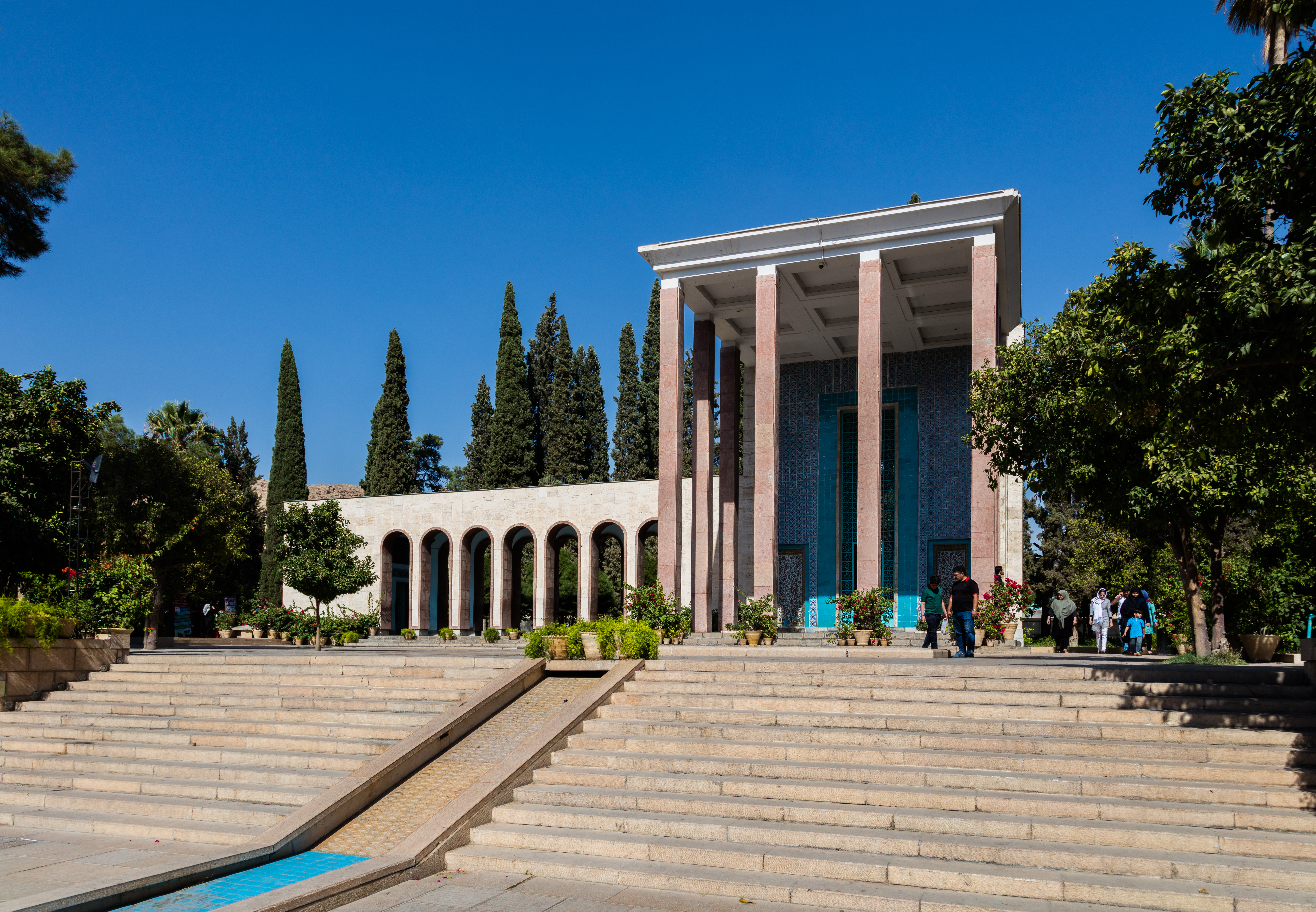 Mausoleum of Saadi, Shiraz, Iran